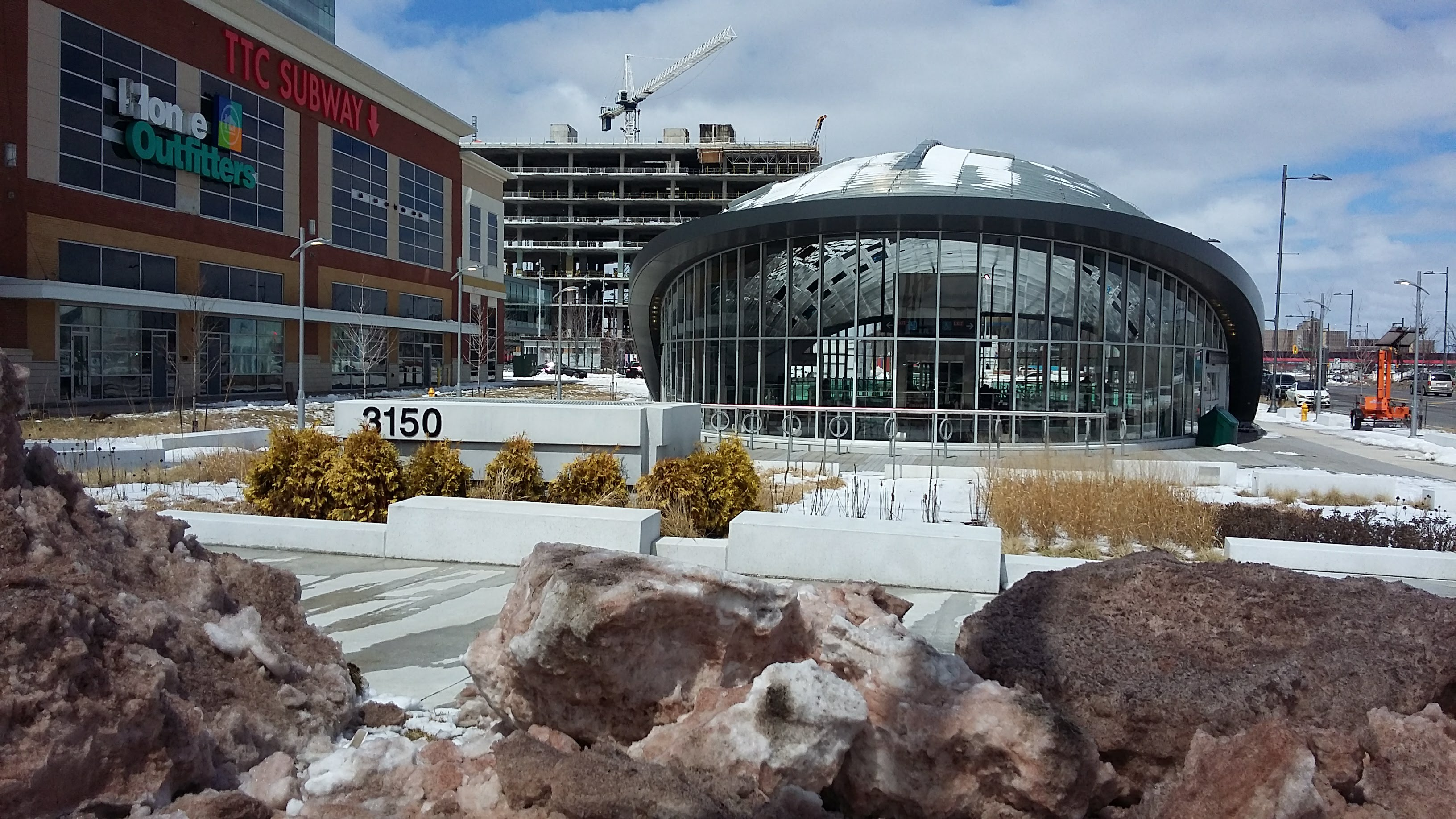 Looks pretty new and shiny... except for Home Outfitters' logo looking like it had been through a fight. And what is with that rust-coloured snow on the ground?!